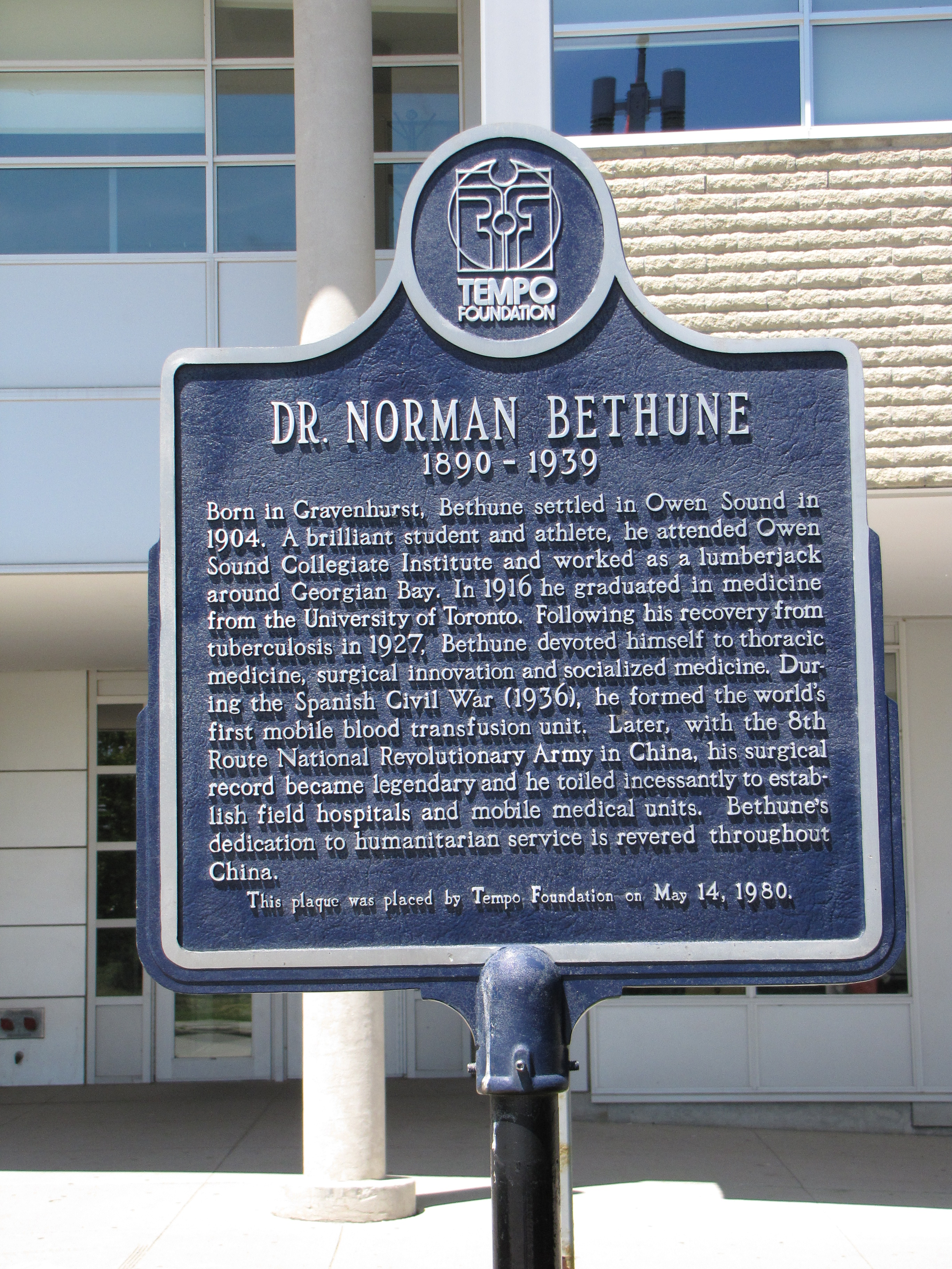 Commemorative plaque honoring Dr. Norman Bethune, on the grounds of Owen Sound Collegiate and Vocational Institute (the high school he attended).